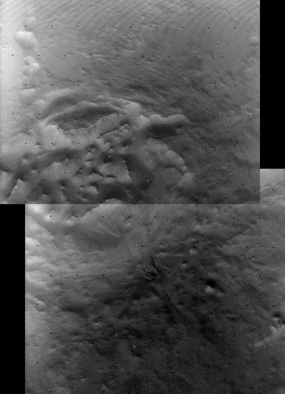 Mari crater, within Argyre basin, on Mars. Viking 2 images from camera A (568B50, 568B52). Clear filter was used for this image. Resolution is about 37 m/pixel. Approximate north is in lower right. Statistics for top image are below: Emission Angle: 31.3 Incidence Angle: 76.3 Latitude: -52.3 Longitude: 313.4 Phase Angle: 48.4